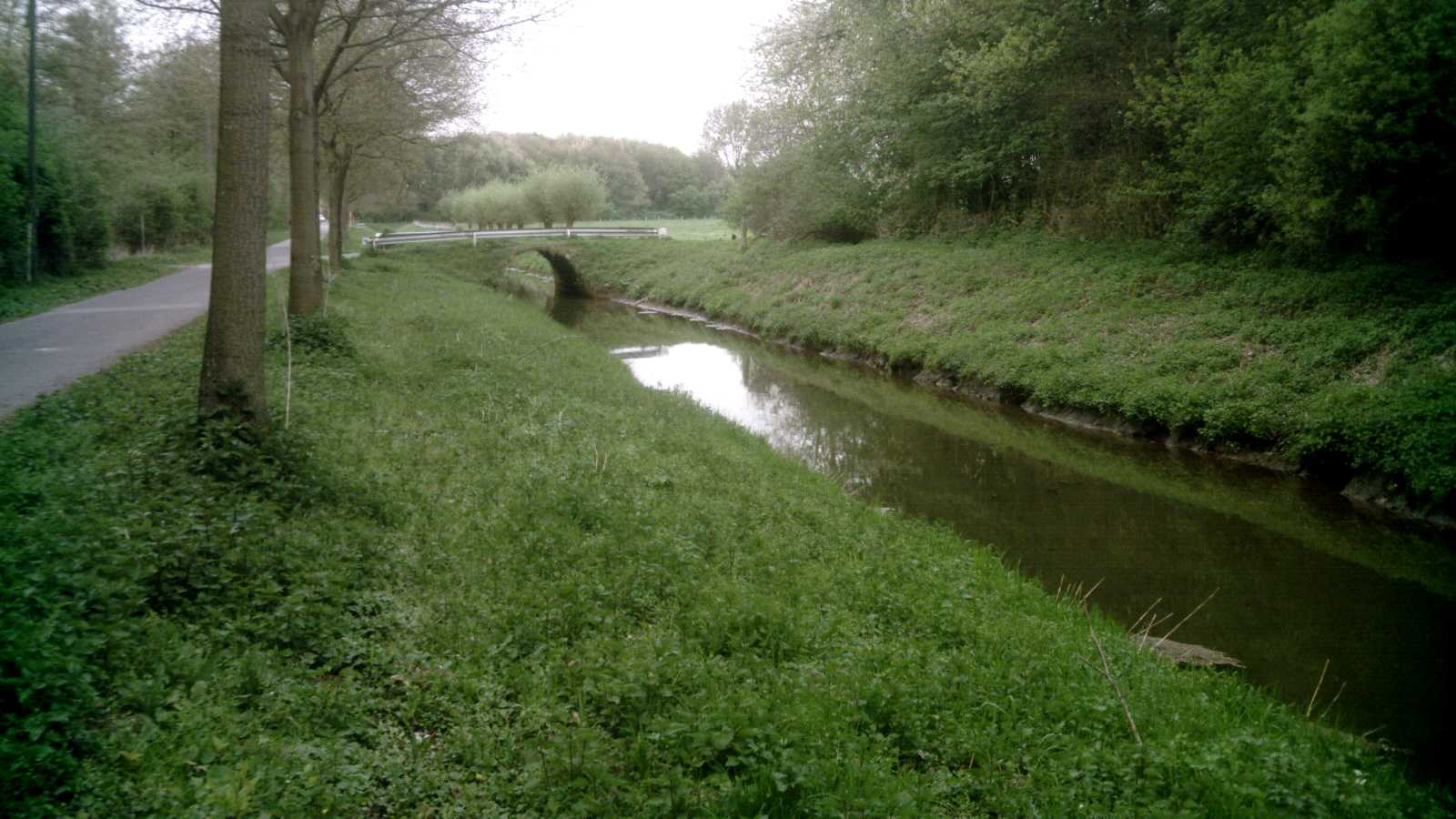 Cloer river near Neersen, Willich, Germany